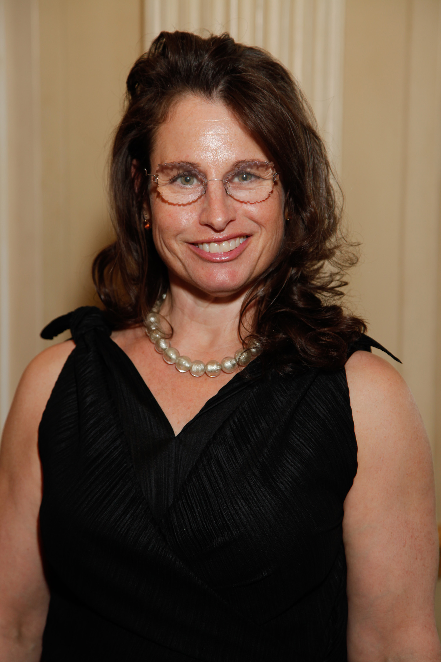 Deborah Tolman at Women’s eNews’ 21 Leaders for the 21st Century for 2012. Photo credit: Lindsay Aikman/Michael Priest Photography